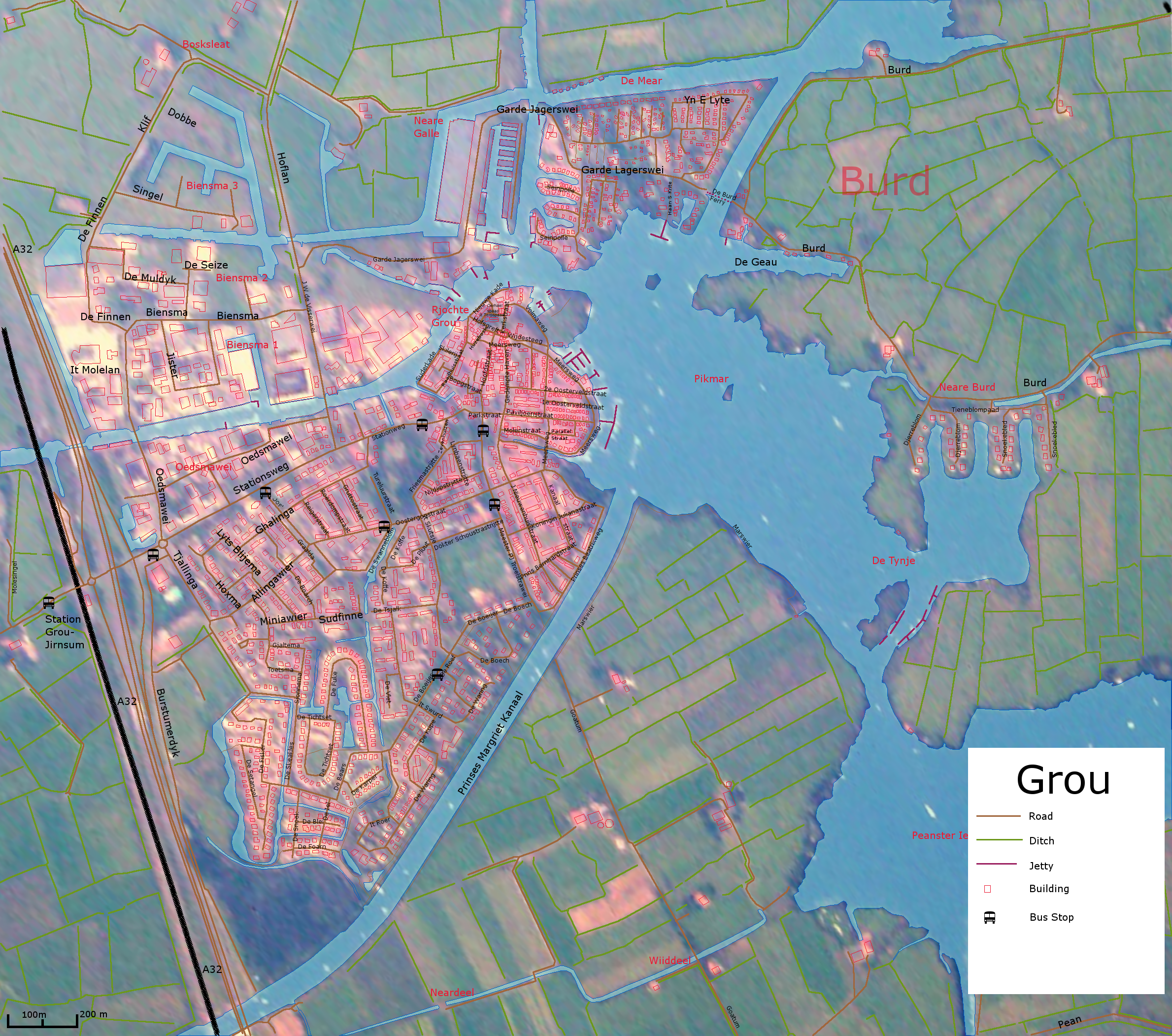 This is a map of Grou or Grouw Friesland. The map is based on a aerial photo taken on 2 September 2004 called File:Grouw_20040902_2214.jpg on commons by User:Debot. The picture was clipped, rotated, perspective altered in Gimp. The next layer is water and ditches, the next layer is roads, the next layer is buildings. These layers are hand drawn. Names of streets, scale and legend are on top. Information on names of streets, and locations of buildings was derived from Google Maps 2009. Scale is roughly 1:5000 when displayed at 75 dpi. North is to the top of the map.